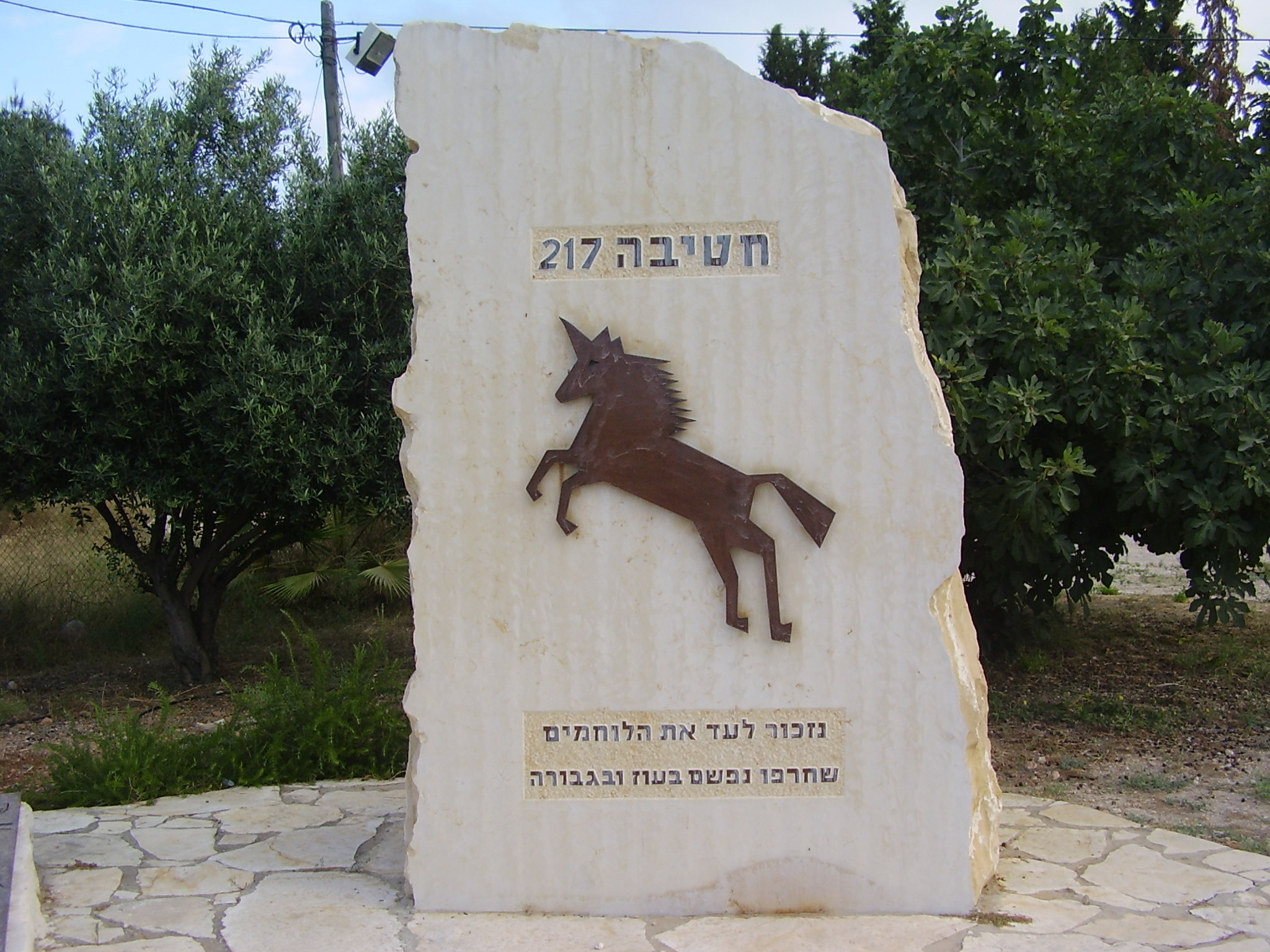 brigade 217 memorial